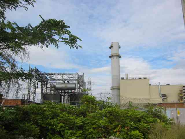 Gas Fired Electricity Generating station Brimsdown